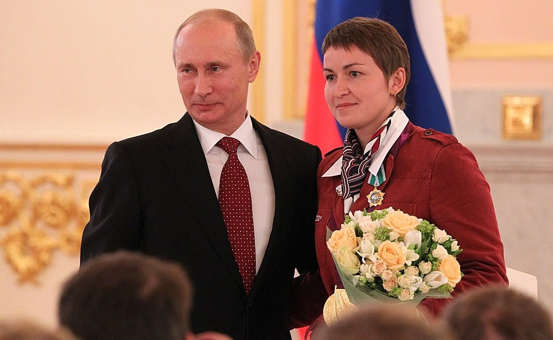 Vladimir Putin presenting state decorations to London Paralympic Games champions and medallists. Order of Friendship presented to XIV Paralympic Games champion Svetlana Sergeeva.